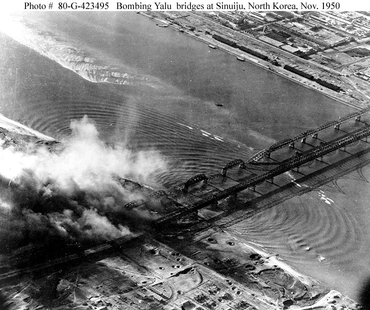 Arial photograph of bomb damage during United States air attacks on the Yalu River Bridges between Sinuiju in North Korea and Dandong in China. The photograph is dated 18th November, 1950 though the source suggests that 14th of November is a probable date.